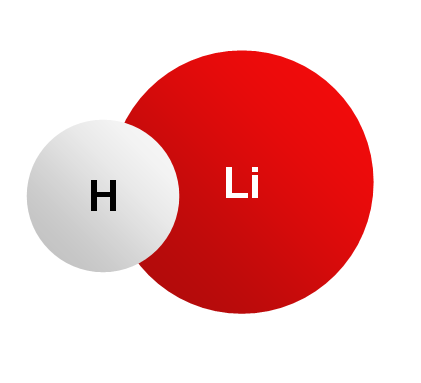 I made this image myself. It represents lithium hydride (chemical).